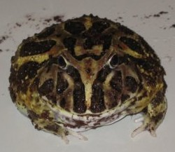 This is a photo of George (12/?/2000–12/29/2004), our beloved Cranwell's horned frog (Ceratophrys cranwelli), when she was about three years old. Taken by Diberri and Celgeofrog, and released under the GFDL.